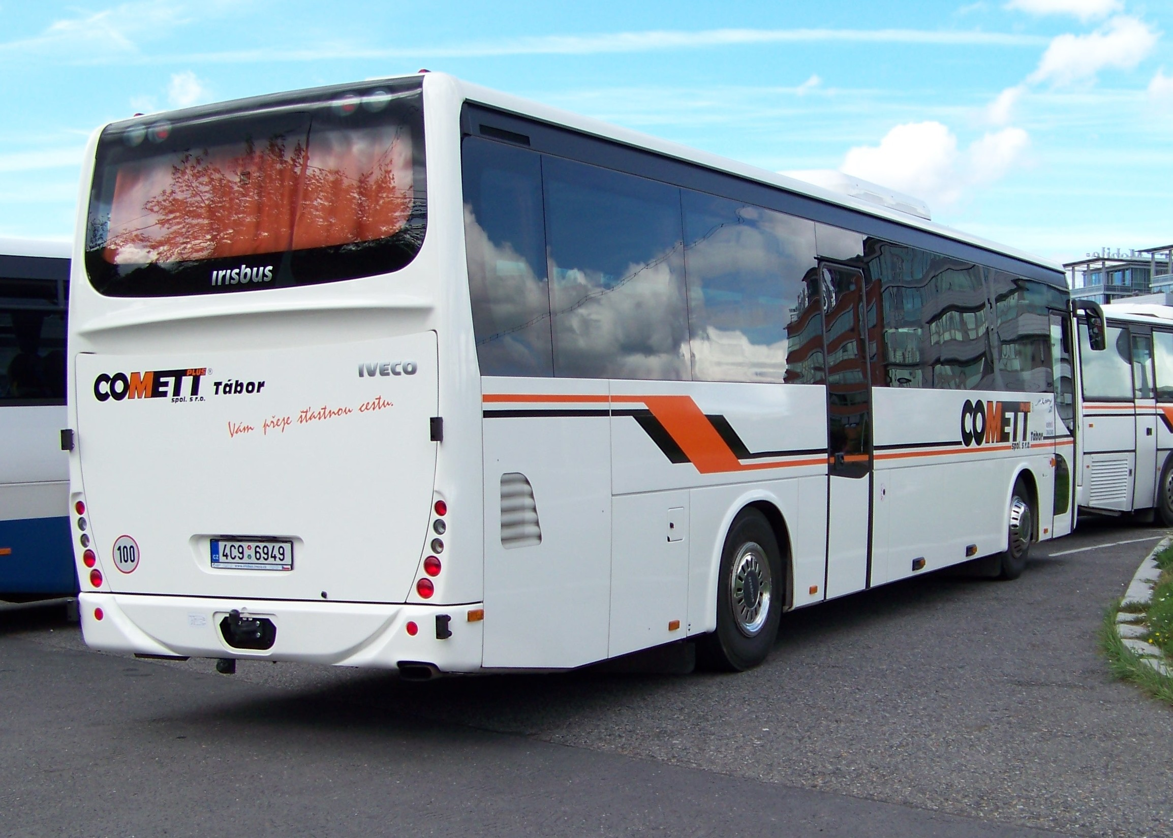 Prague-Chodov, the Czech Republic. Roztyly bus station. Buses of Comett Plus.